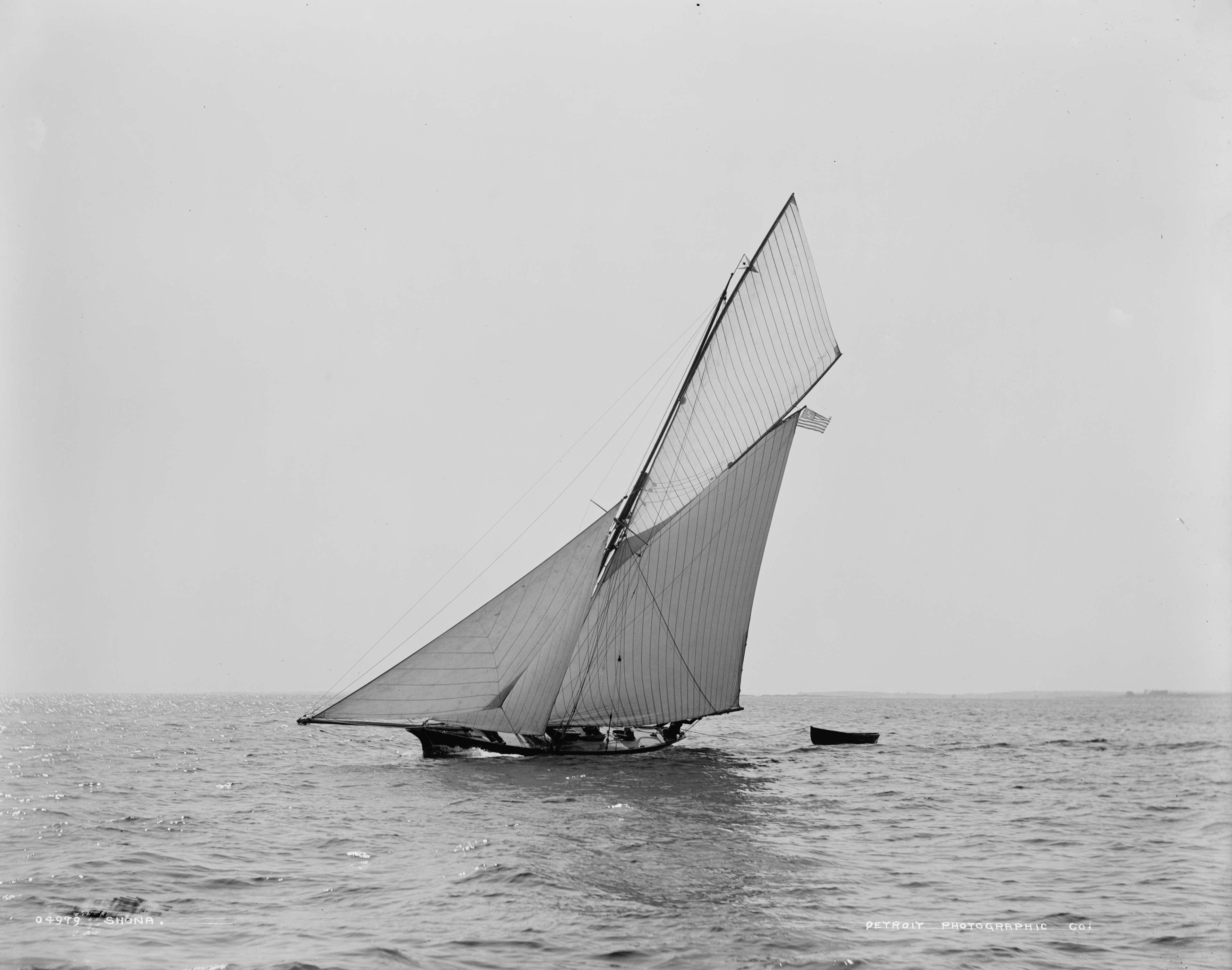 Admiral Charles H. Tweed's cutter Shona (George Lennox Watson design, 1884), built at the McQuistan shipyard, Largs and raced in the Corinthian Yacht Club, New York